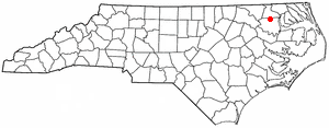 Category:North Carolina Dot Maps